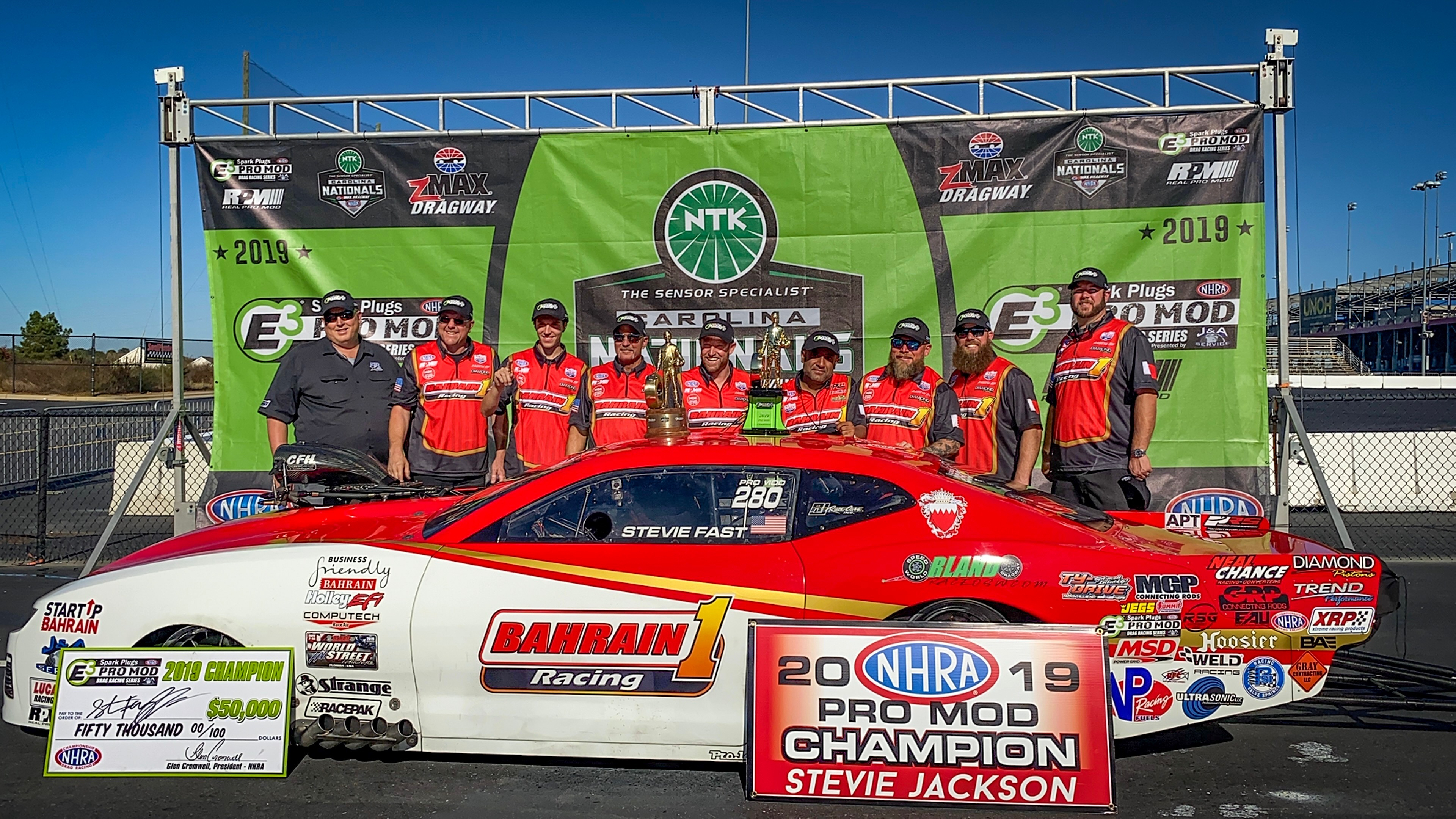 Winners circle for the NHRA Pro Mod Champions October 15, 2019 Team Sponsor: Bahrain 1 Racing Team: Killing Time Racing Driver: Steve Jackson AKA Stevie "Fast" Jackson Tuner: Billy Stocklin AKA Big Swig Other Team Members: Jack Barbee, Robert Jonsson, Robbie Lorwy, Khalid Al Balooshi, Matt Walden & Drew Mcclure